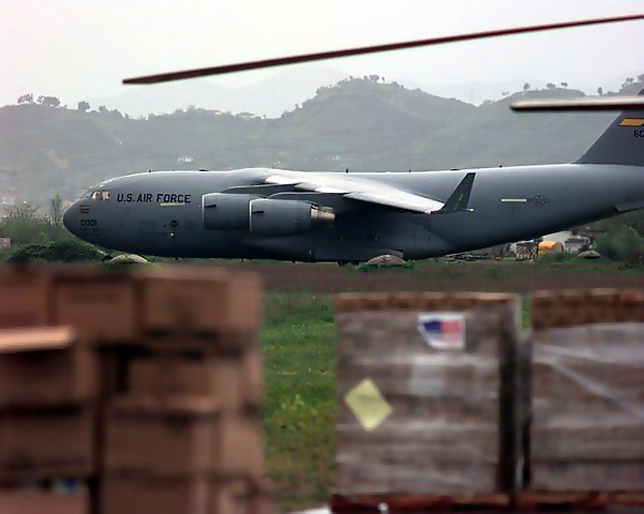 Reserve C-17 brings food to Albanians. Feb. 1992 - Sept. 1994 -- Air Force Reservists delivered tons of food and life-sustaining supplies to the 11 nations of the Commonwealth of Independent States in support of Operation Provide Hope. Here, a C-17 from Charleston Air Force Base, S.C. taxis for departure to Albania Despite description on afrc.af.mil web-site this photowork illustrates another event (Albania was not part of USSR or CIS).